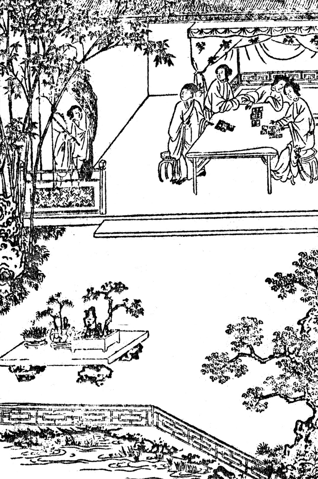 Jin Ping Mei, illustration from chinese edition (1617), part 1, chapter 17